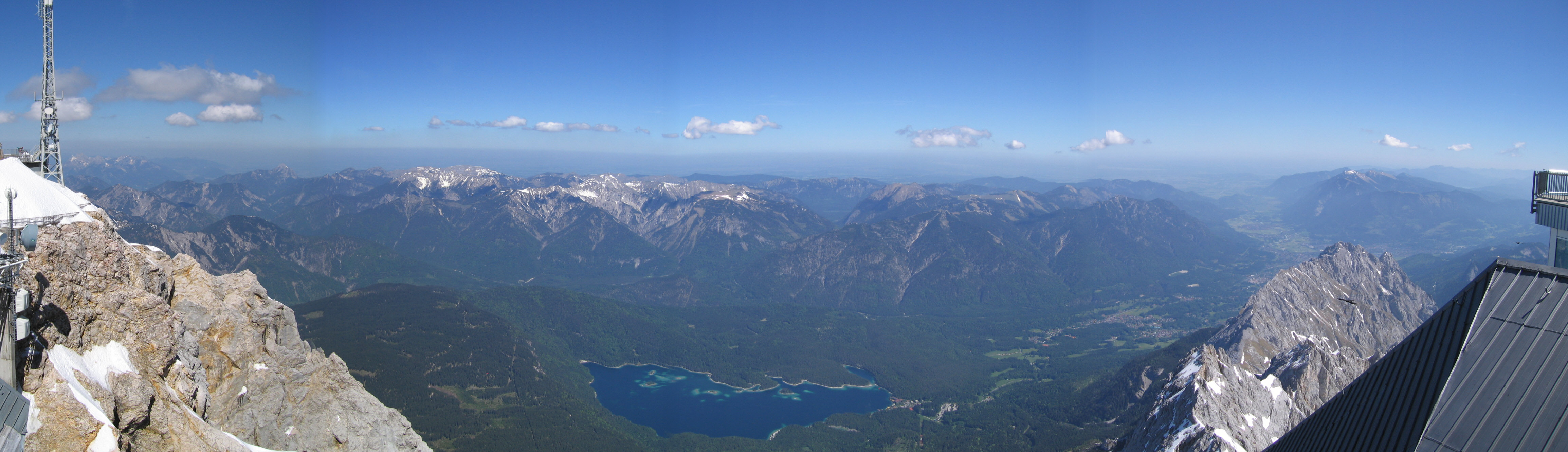 View from the Zugspitze platform looking north toward Germany. Notice Eibsee in the middle and the town of Garmisch-Partenkirchen to the right Author: John C. Watkins V